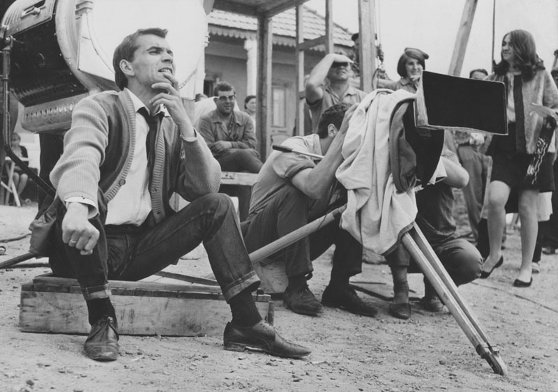 Vlad Iovita - Moldavian Soviet writer and filmmaker (60-ies).